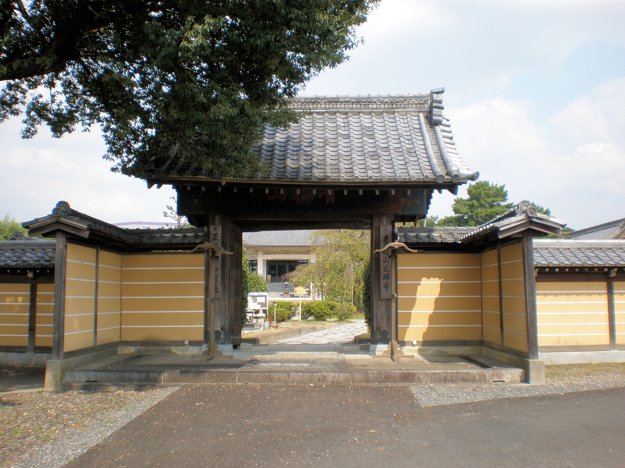 Syougenji (Komaki)